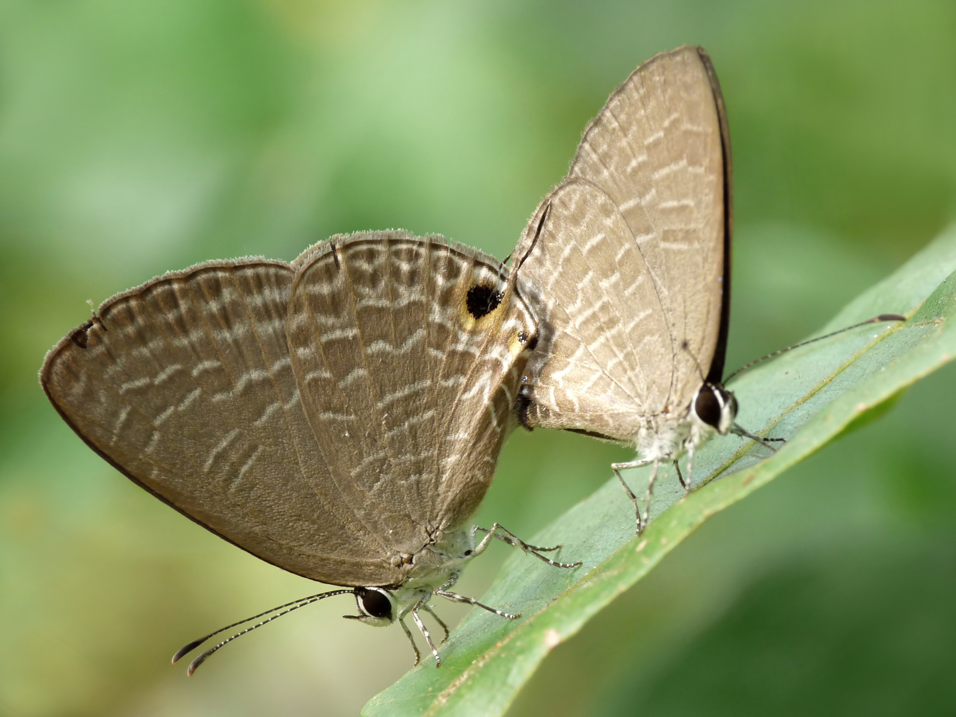 The Dark Cerulean (Jamides bochus) is a small butterfly found in India that belongs to the Lycaenidae or Blues family. Taken at Kadavoor, Kerala, India.